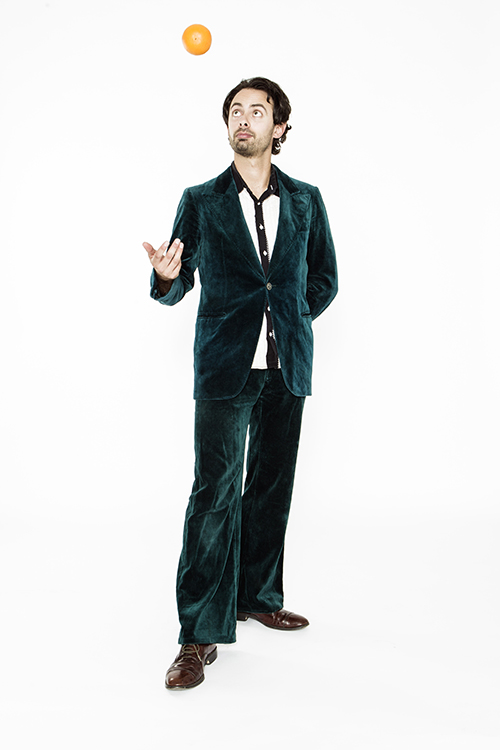 Alexis Dubus by Patch Dolan